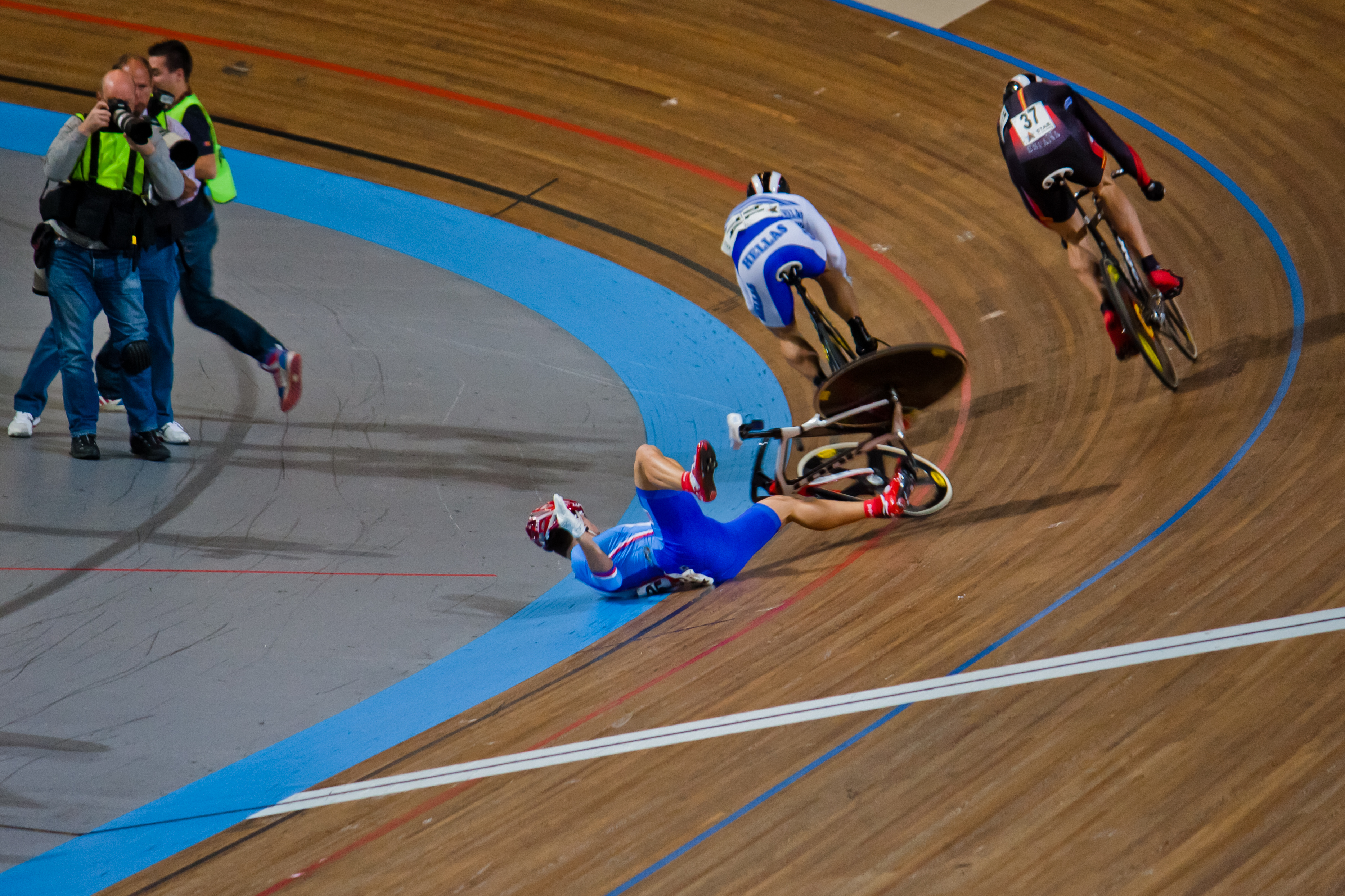 Denis Spicka (CZE) takes a spill during heat 4 of the men's keirin qualifying round. Christos Volikakis (GRE# & Juan Peralta Gascon #ESP) continue on. At the 2011 European Elite Track Cycling Championships in Apeldoorn, Netherlands.